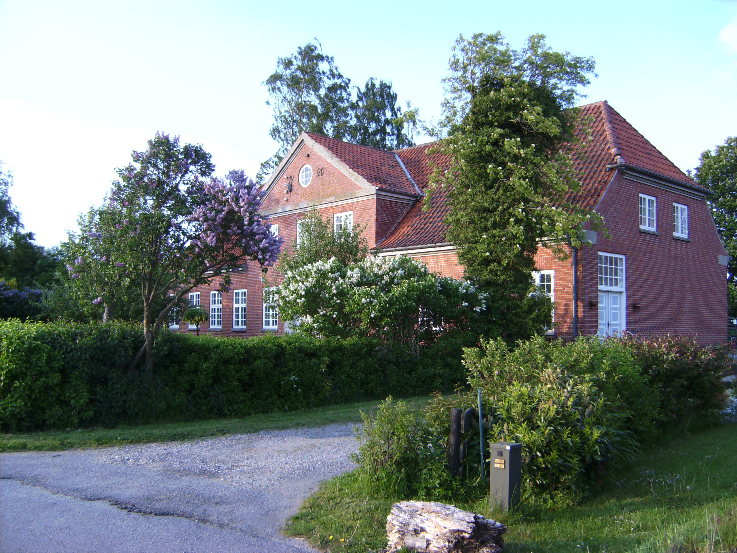 former school in Godsted, Denmark